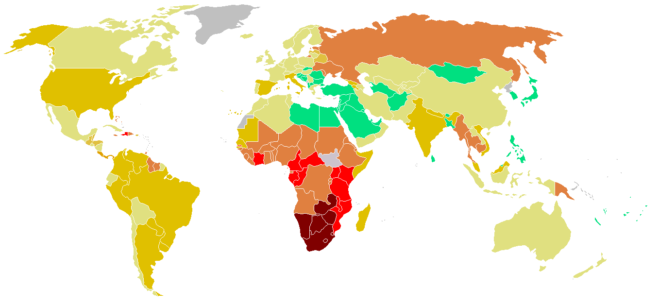 Adult HIV prevalence by country.